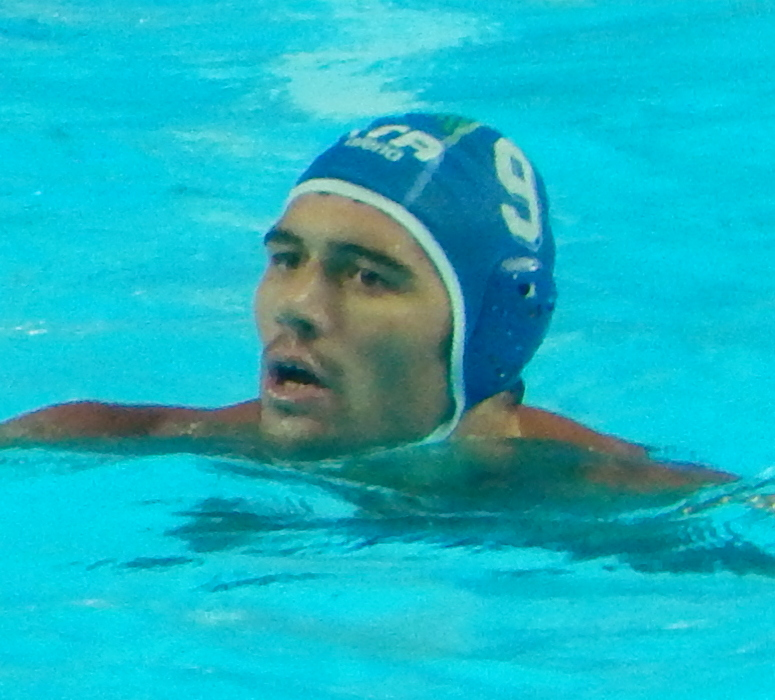 The bronze medal match between Team Greece and Team Italy. All photos have been taken from the photographers sector. I was simply usual visitor but my ticket was to non-existent seats, therefore I was moved to that sector. All good photos I upload to WikiCommons for free use.